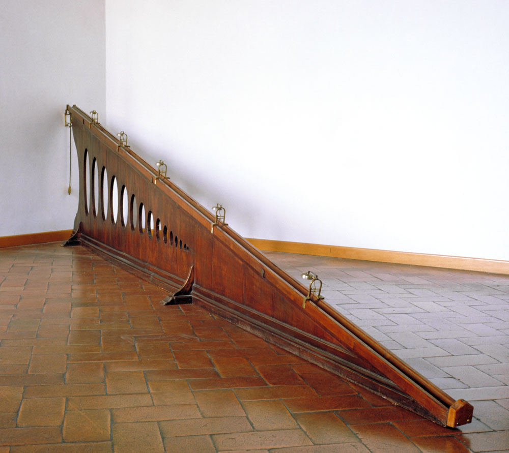 AuthorUnknownDescription